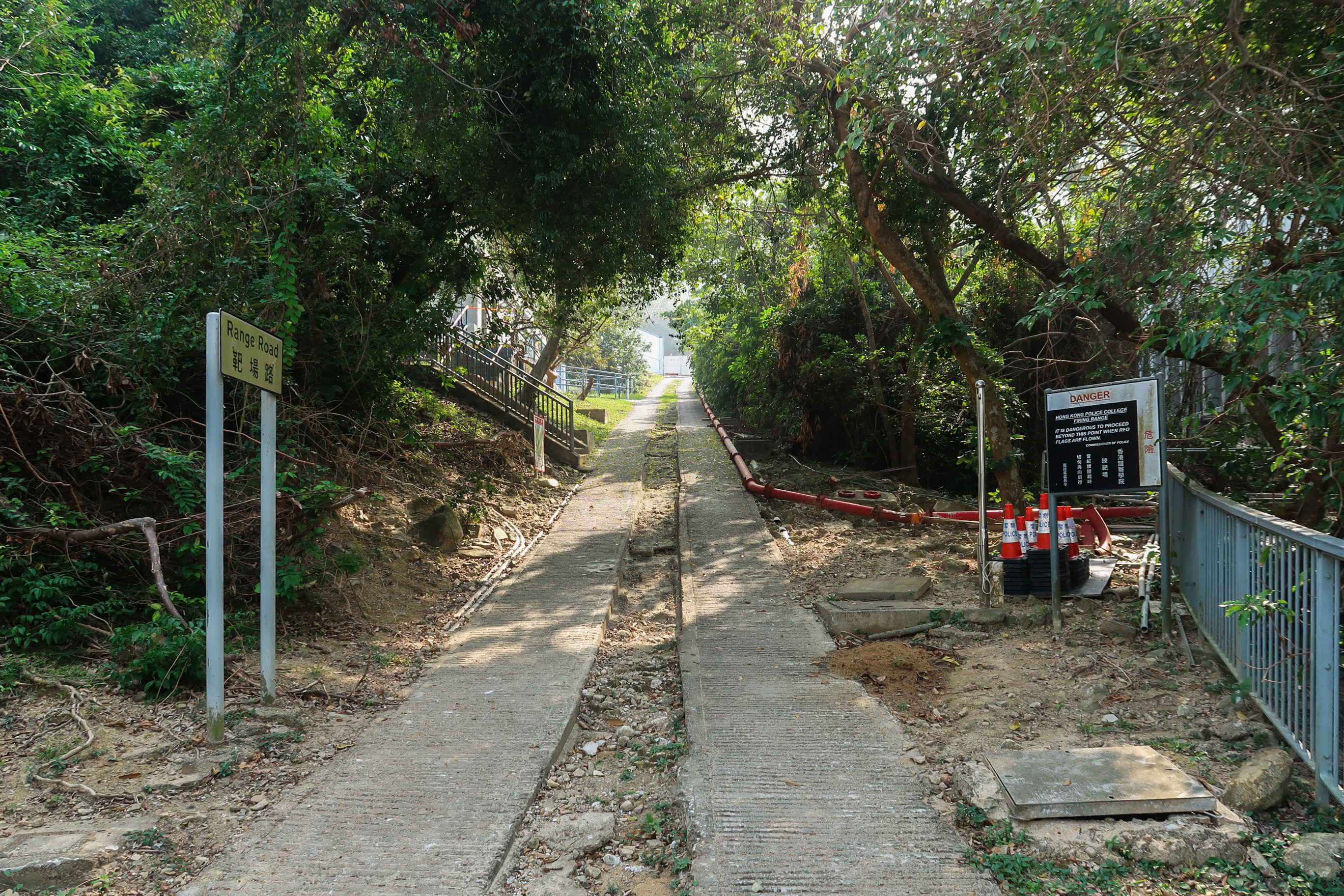 Hong Kong Police College Range Road